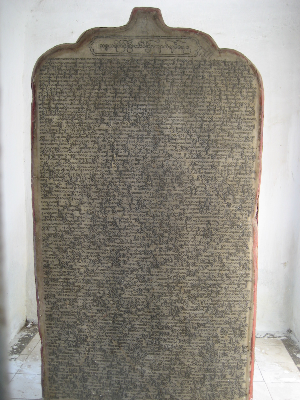 One of the Burmese alphabet inscriptions or kyuaksa at the Kuthodaw Pagoda, Mandalay, Myanmar. The entire Tipitaka Pali canon of Theravada Buddhism is set on 729 marble slabs, each with 80 to 100 lines of text, originally in gold ink, on both the obverse and the reverse sides. Each stone is three and a half feet wide, five feet tall and five inches thick and housed in a kyauksa gu or a small cave-like stupa.